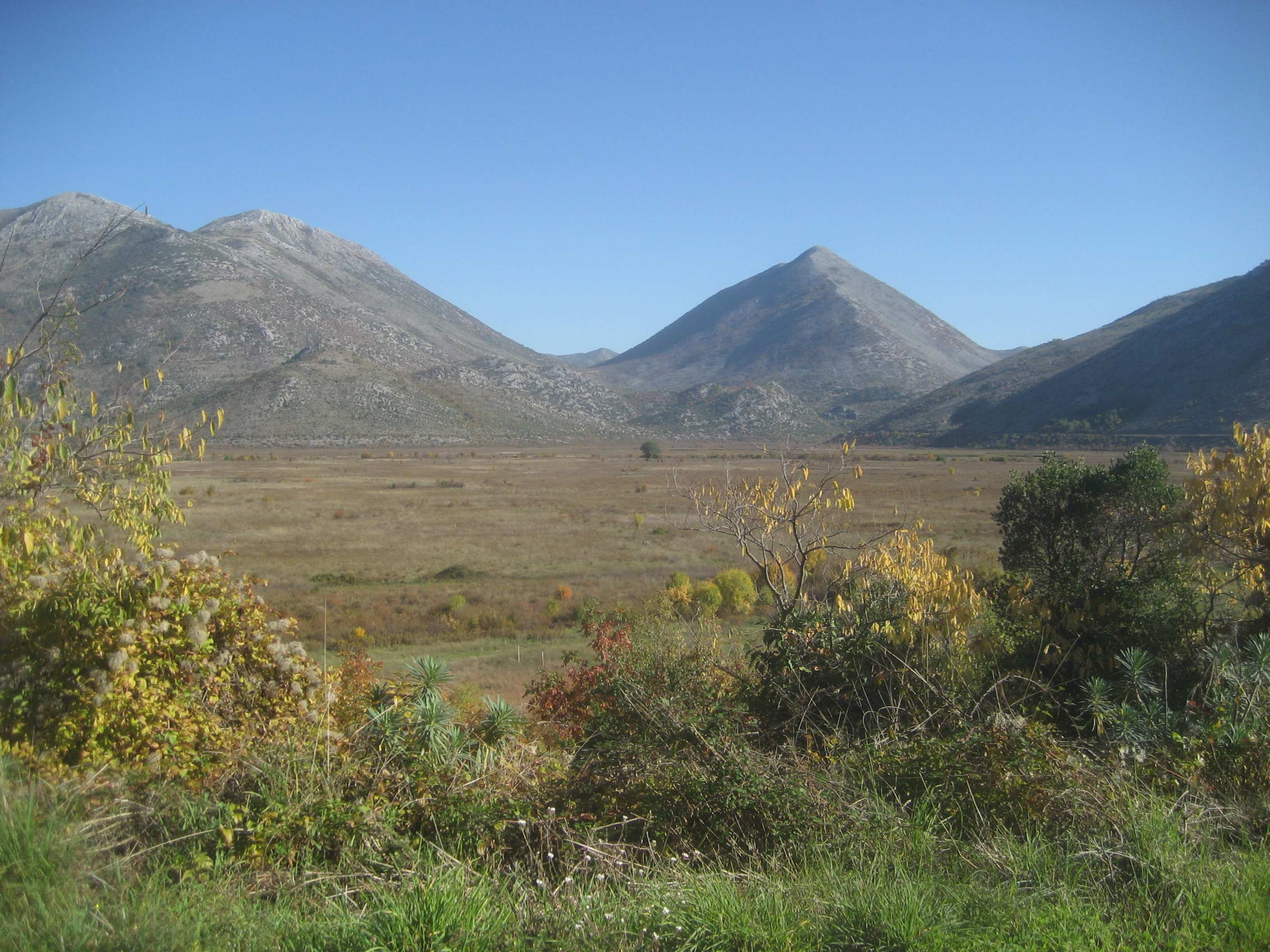 with 35km very long Karst field (polje) in Bosnia and Herzegovina